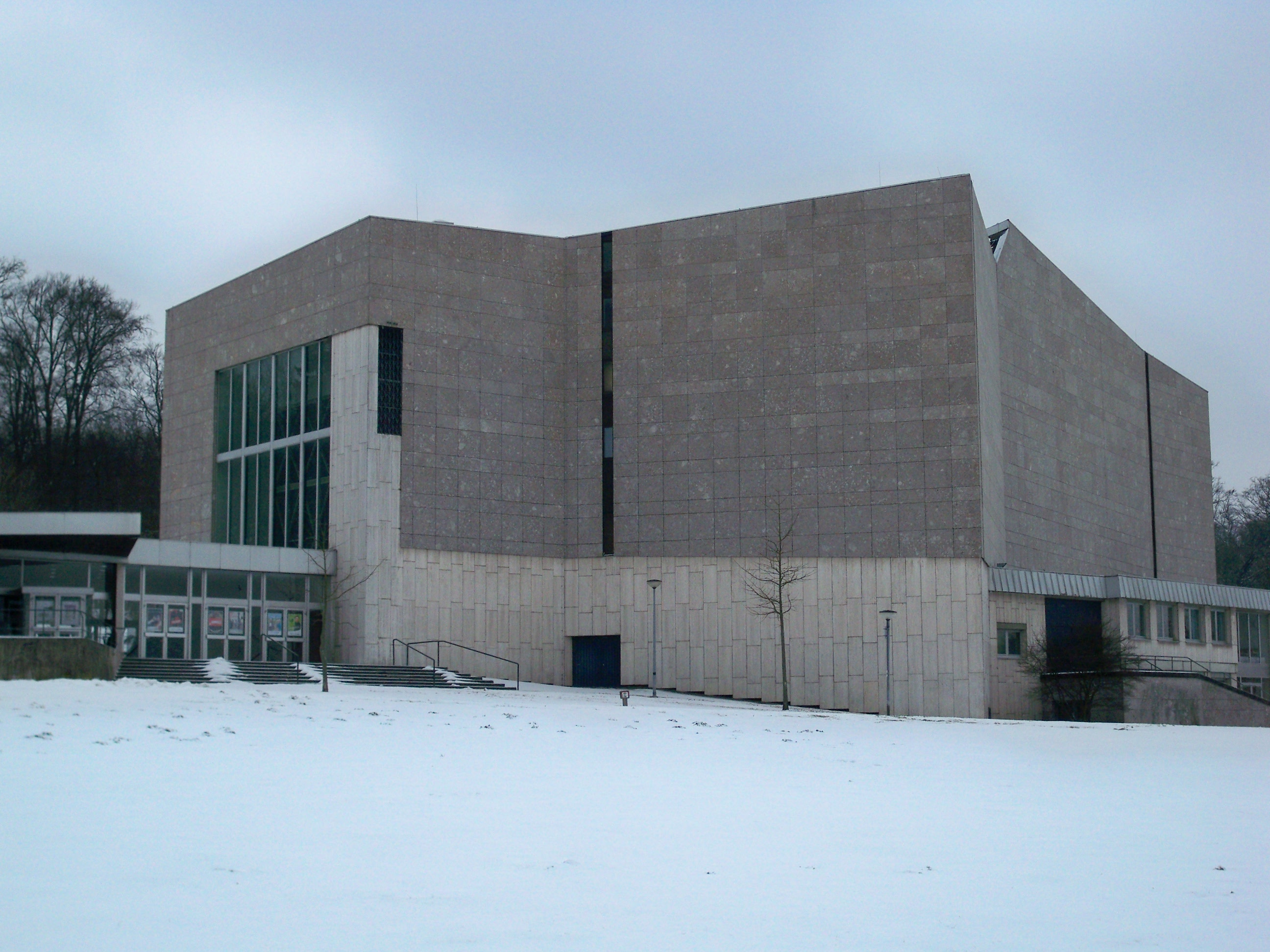 Wolfsburg, Lower Saxony, theatre, central part with stages and auditoria